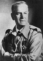 Oleg Pantukhov, leader of Russian Scouts.